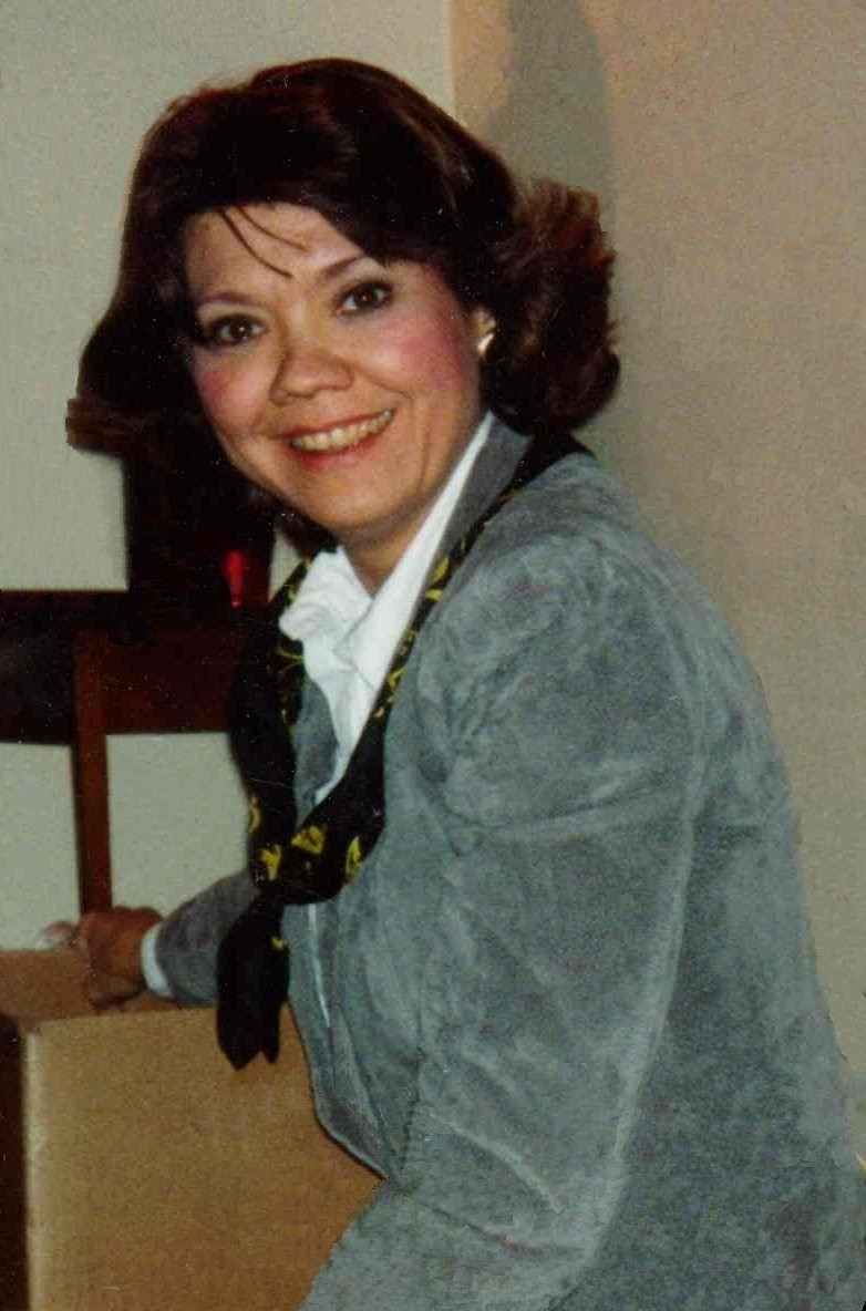 Chris Brammer, The image has been release for use free of charge.